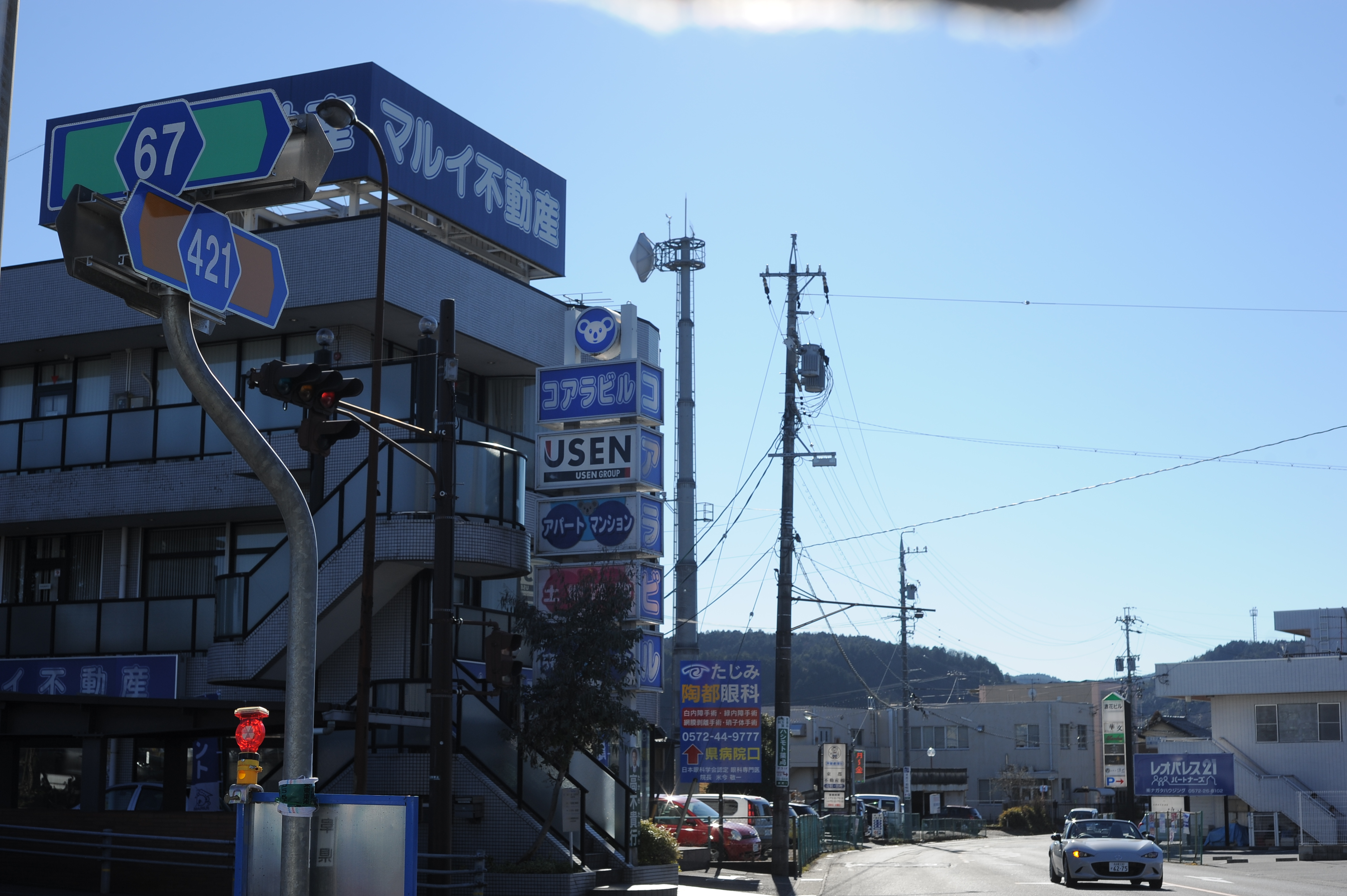 Gifu prefectural Route 67 and 421, Tajimi, Gifu